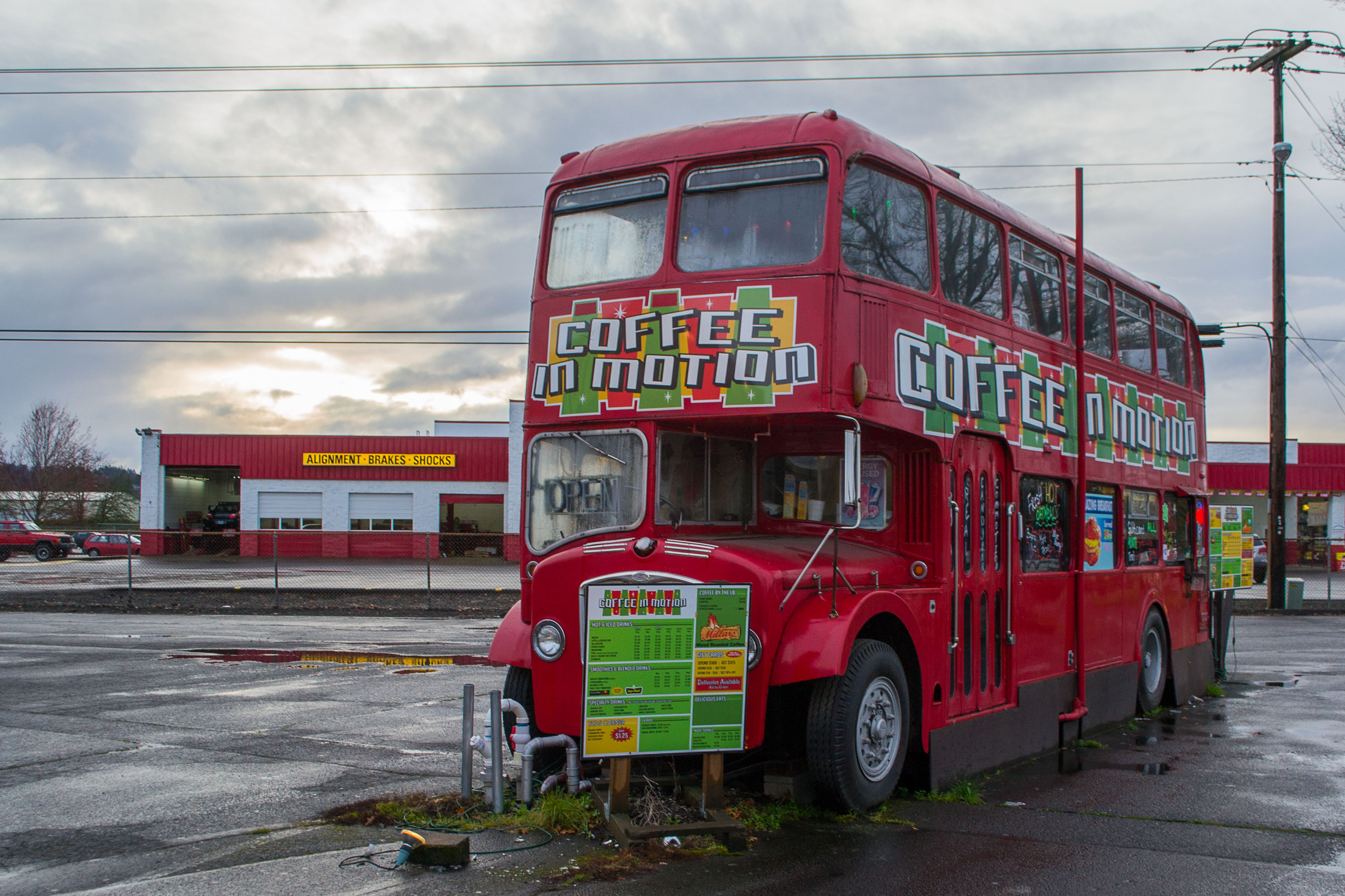 A Bristol Lodekka serves coffee in Salem, Oregon